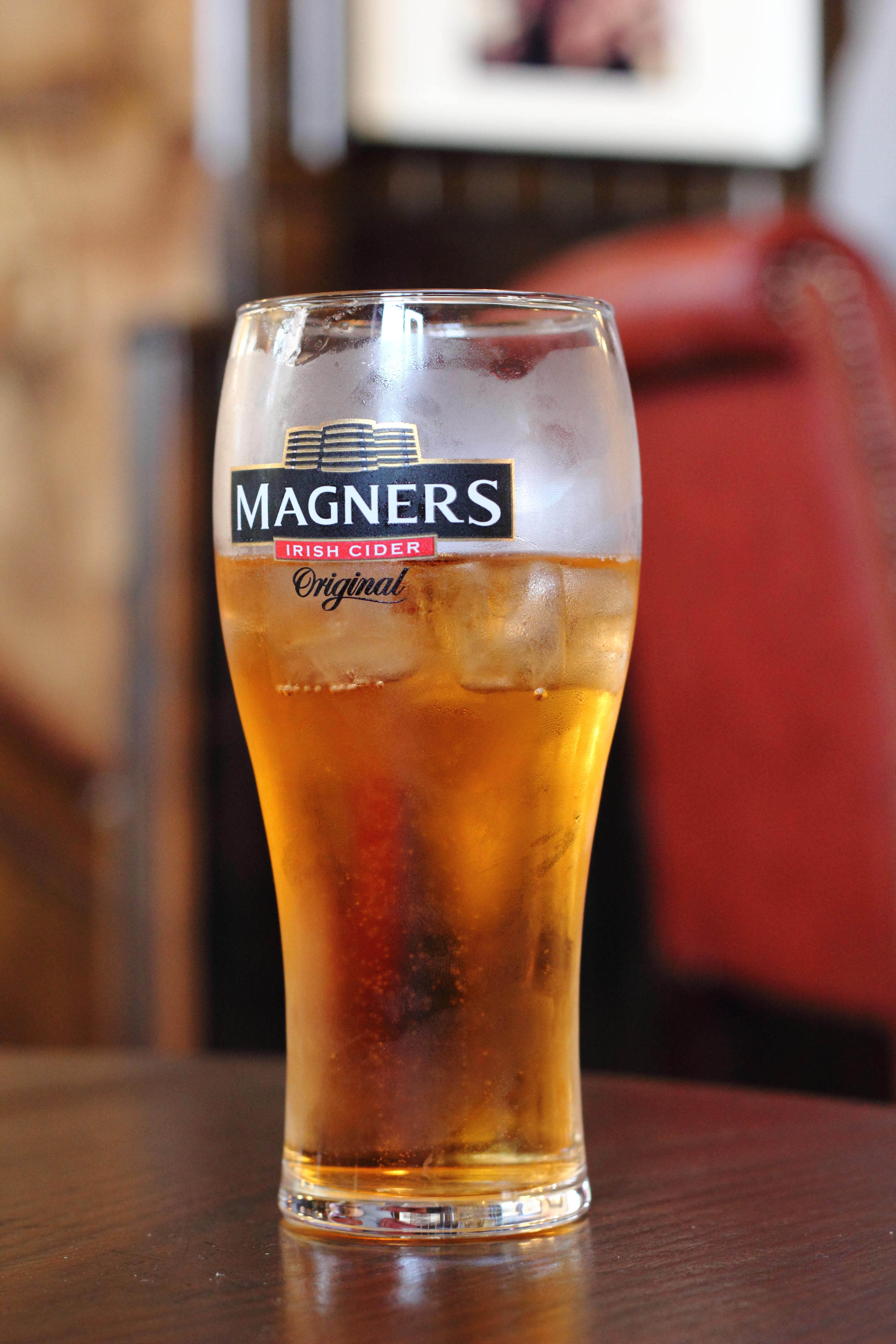 A pint of Magners cider